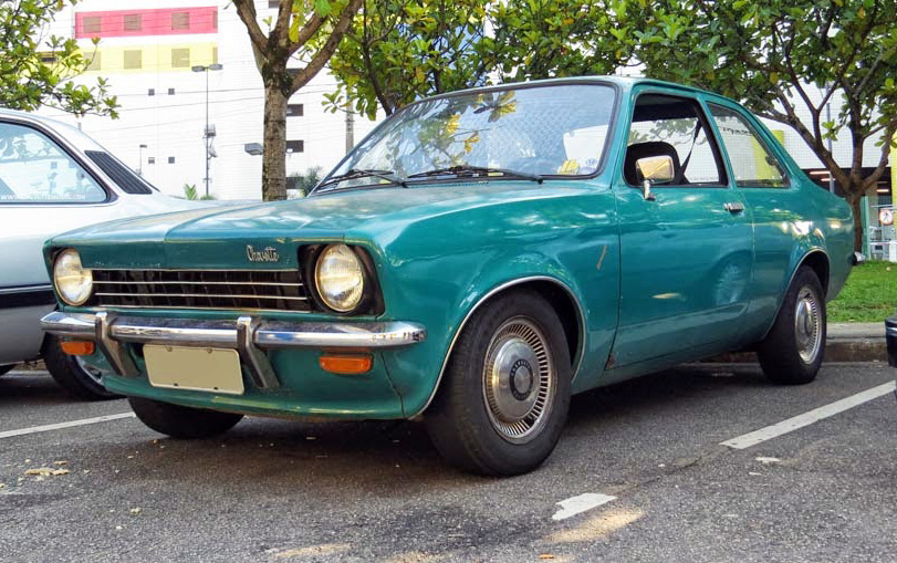 Early Brazilian Chevrolet Chevette, two-door sedan. Lowered, otherwise original appearance.